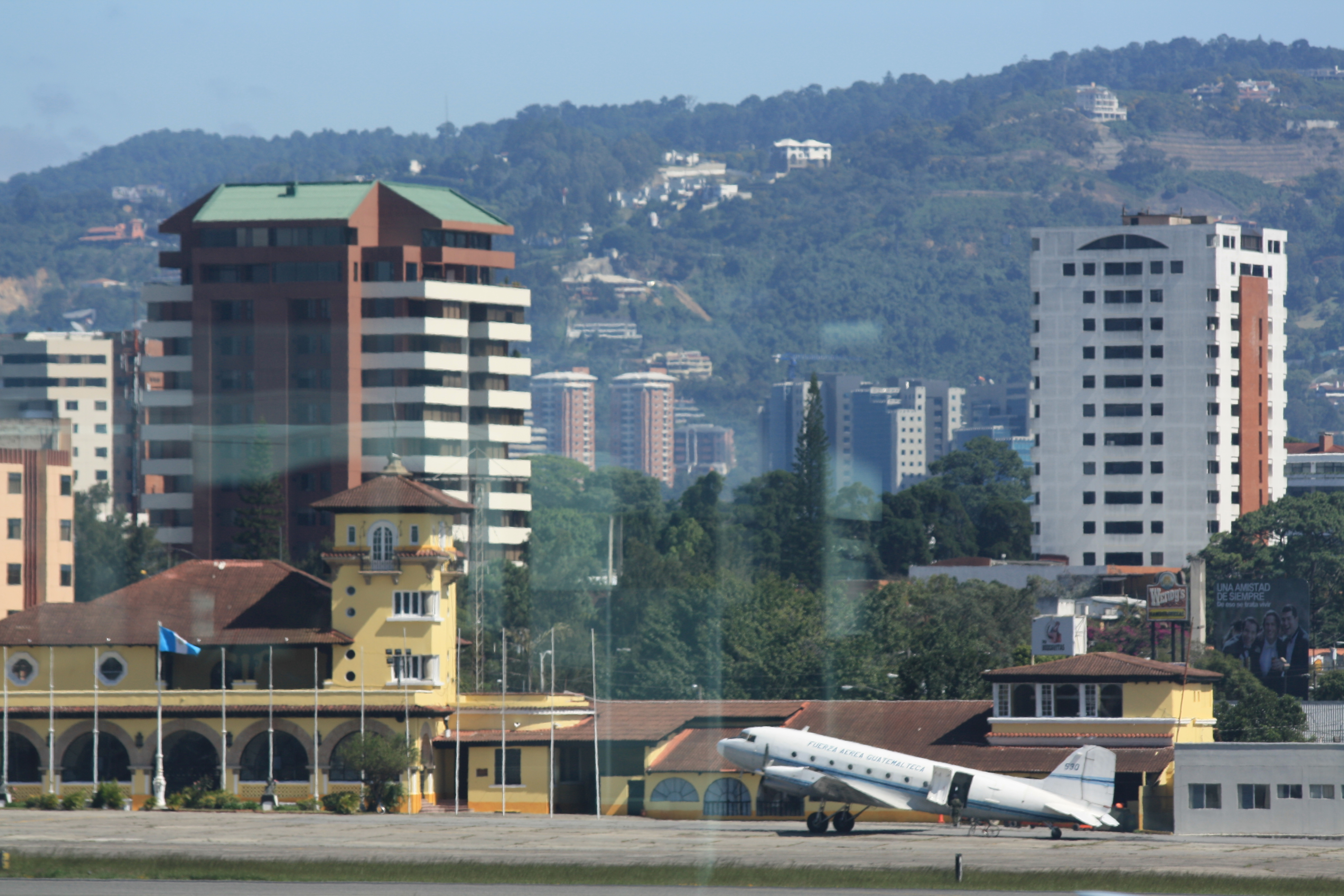 Various buildings visible from La Aurora Int'l Airport Concourse. In the background a Douglas C-47 Skytrain of the Guatemalan Air Force (FAG) with tail registration number "530".